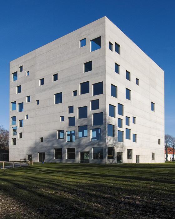 Zollverein Kubus (formerly Zollverein School of Management and Design), Zeche Zollverein, Essen, Germany designed by SANAA (Kazuyo Sejima and Ryue Nishizawa)